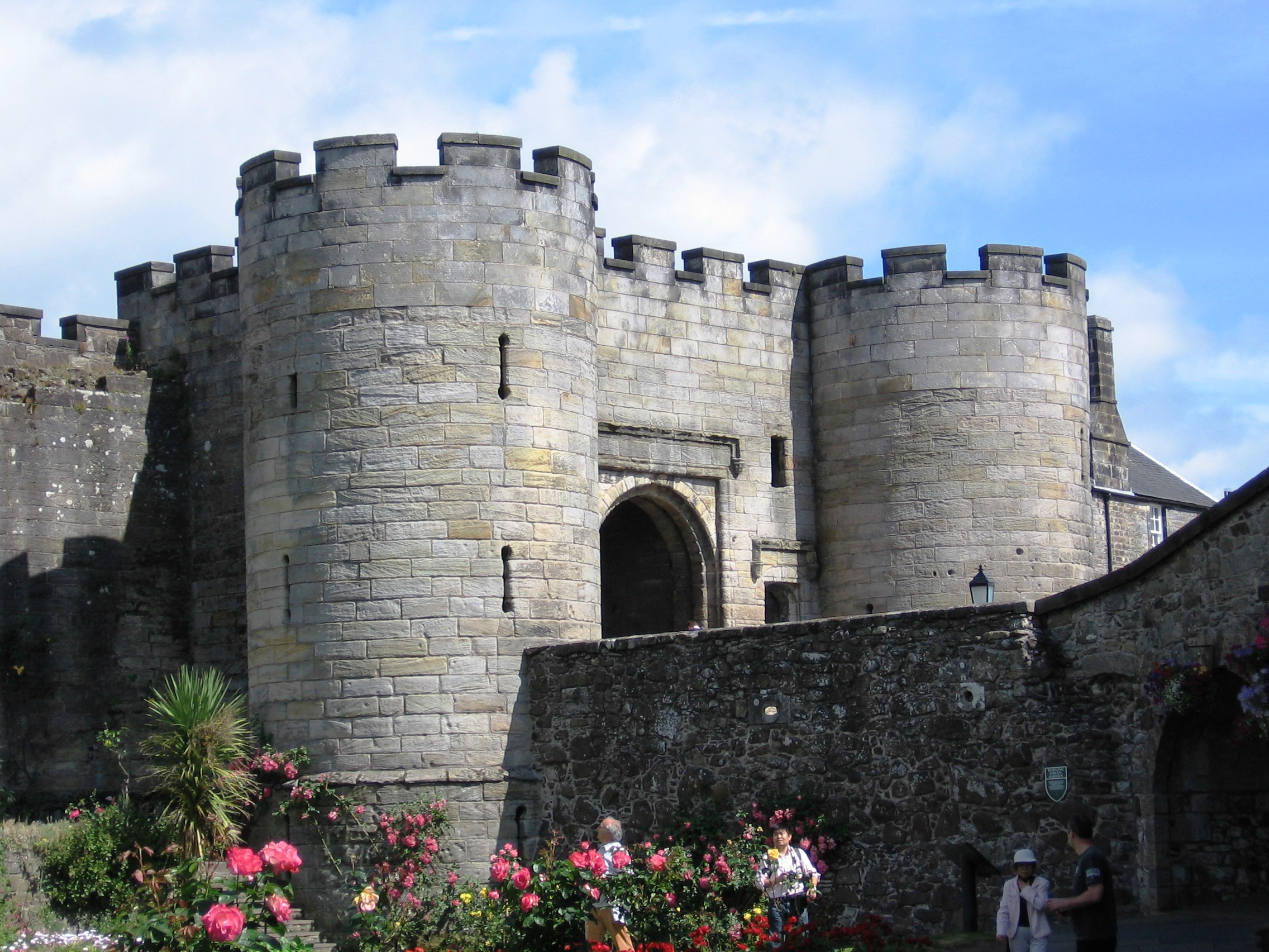 Stirling Castle entrance